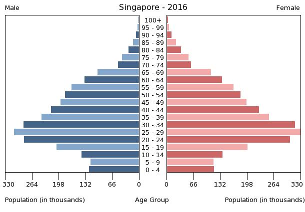 The population pyramid of Singapore illustrates the age and sex structure of population and may provide insights about political and social stability, as well as economic development. The population is distributed along the horizontal axis, with males shown on the left and females on the right. The male and female populations are broken down into 5-year age groups represented as horizontal bars along the vertical axis, with the youngest age groups at the bottom and the oldest at the top. The shape of the population pyramid gradually evolves over time based on fertility, mortality, and international migration trends.